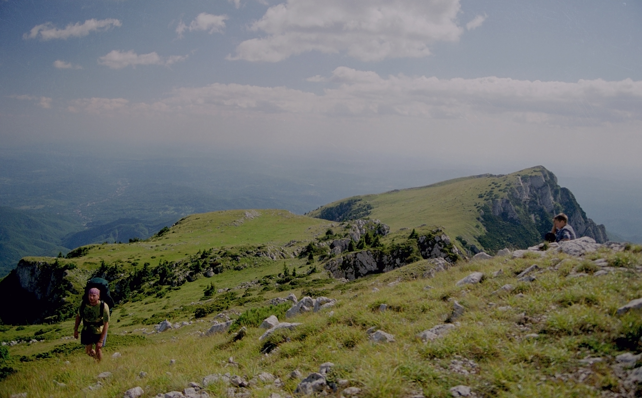 The Buila-Vânturarița National Park in Căpăţânii Mountains, Romania.